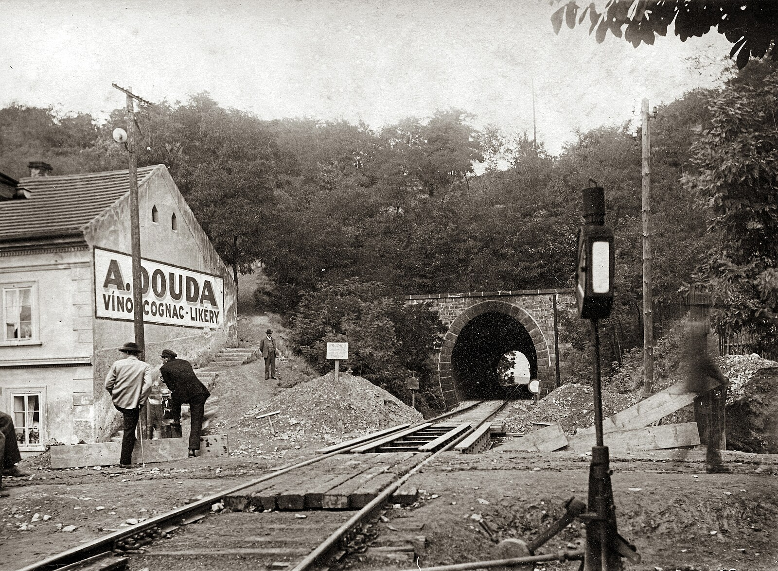 Michle, Prague, the Czech Republic. Bohdalec Tunnel.